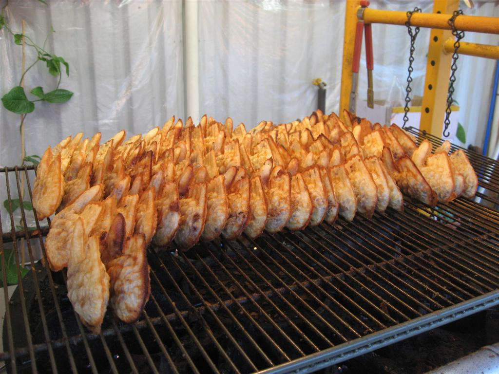 Bungeoppang at Galleria Supermarket in Toronto. July 2007.